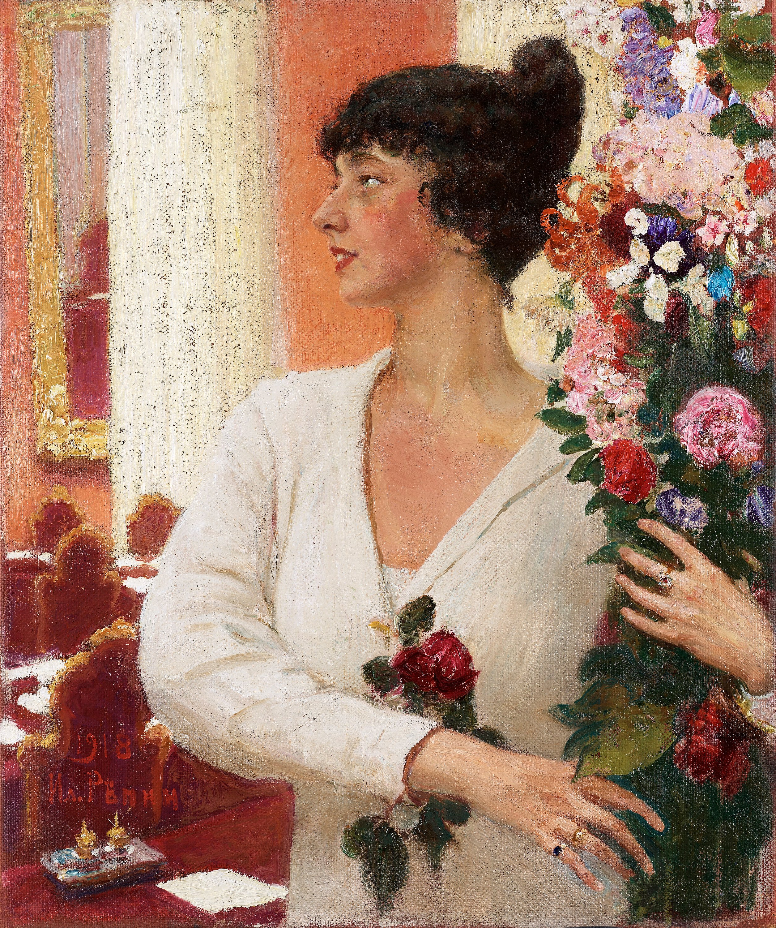 Portrait of Mrs Beatrice Levi